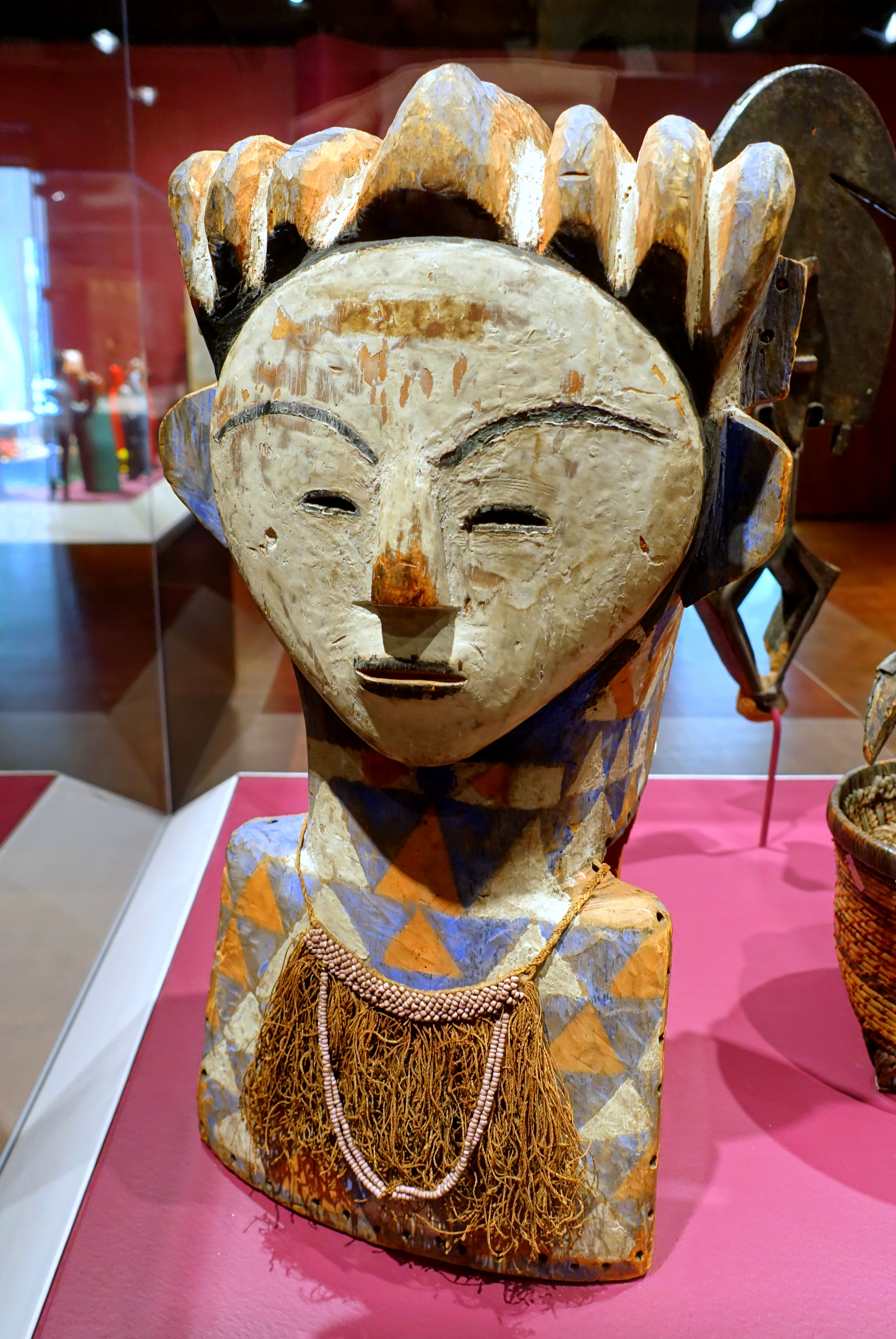 Exhibit in the Fowler Museum - University of California, Los Angeles - Los Angeles, California, USA.